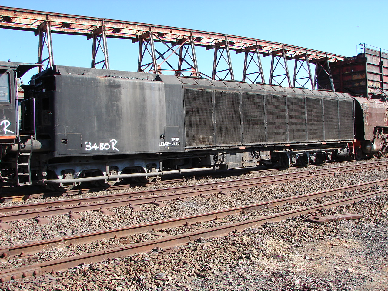 SAR Class 25 3480 (4-8-4) Builder's Number: Henschel 28790 Type: Condensing tender Location: Beaconsfield, Kimberley, Northern Cape